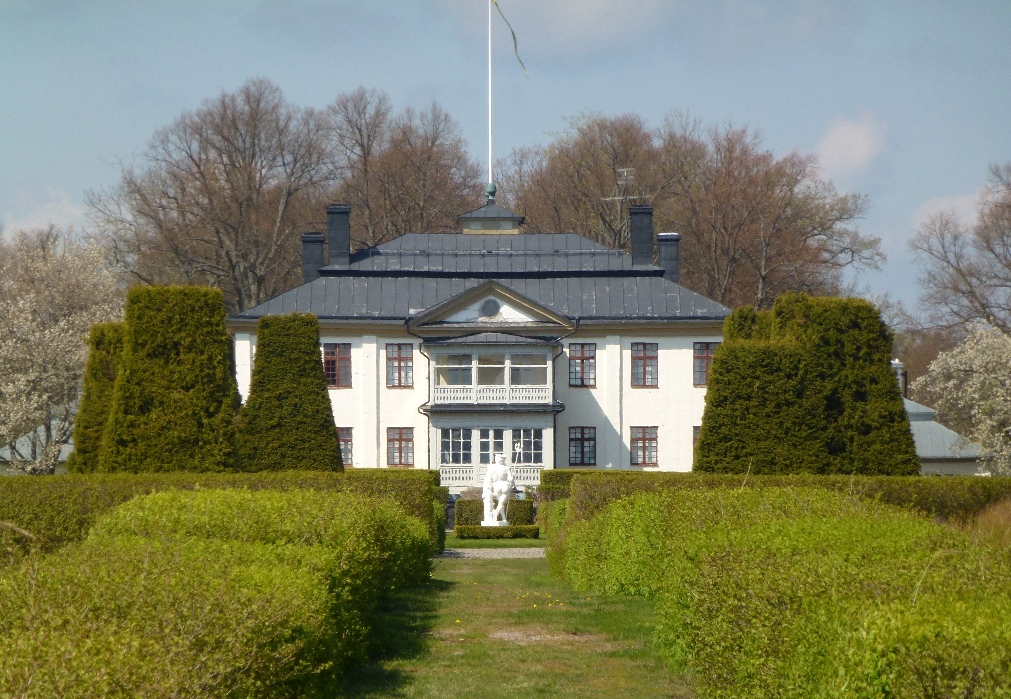 Sandemar huvudbyggnad